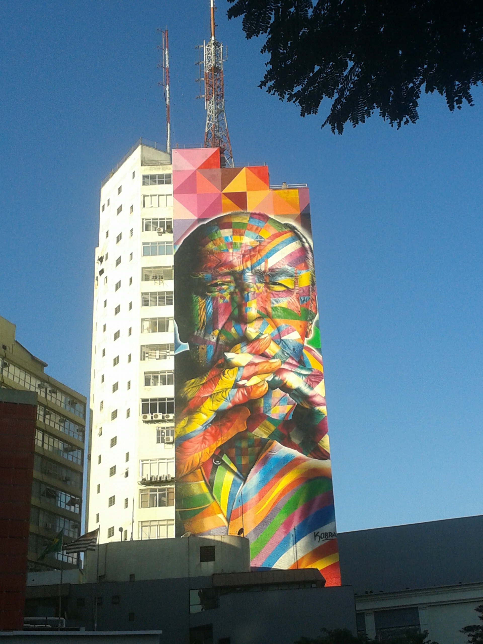 Niemeyer by Eduardo Kobra